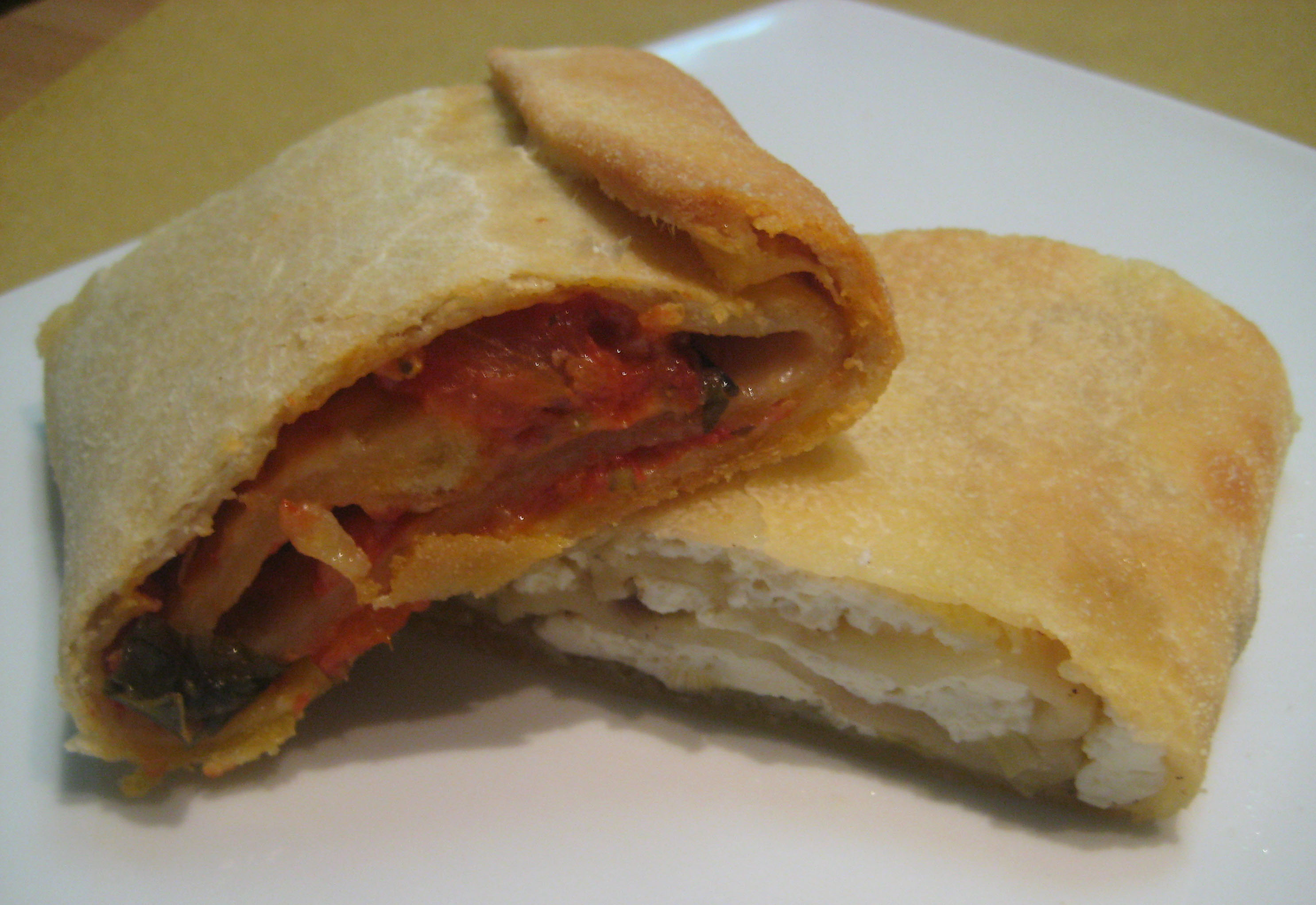 Typical Sicilian food